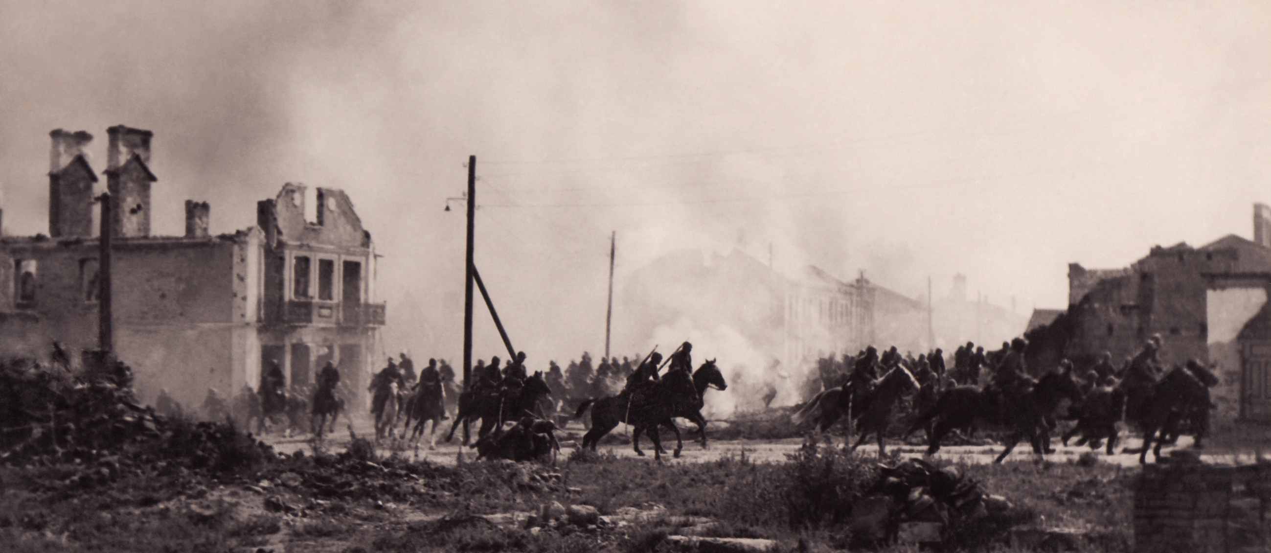 This photograph was published in numerous sources, each with different description: Battle of the Bzura: Polish cavalry in Sochaczew in 1939[1]. Cavalry of Poznań Army in fight in Uniejów region[2]. Bydgoszcz, September 1939[3]. Polish cavalry, September 1939[4].